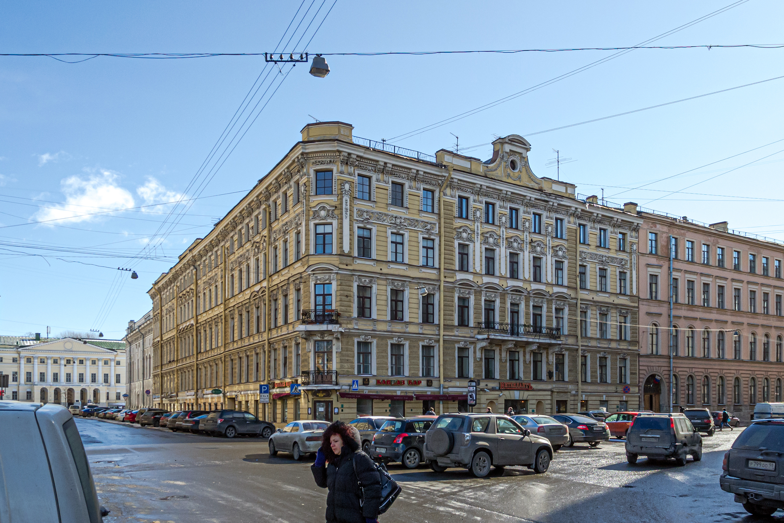 Italianskaya Street in Saint Petersburg.